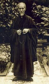 Xuyun